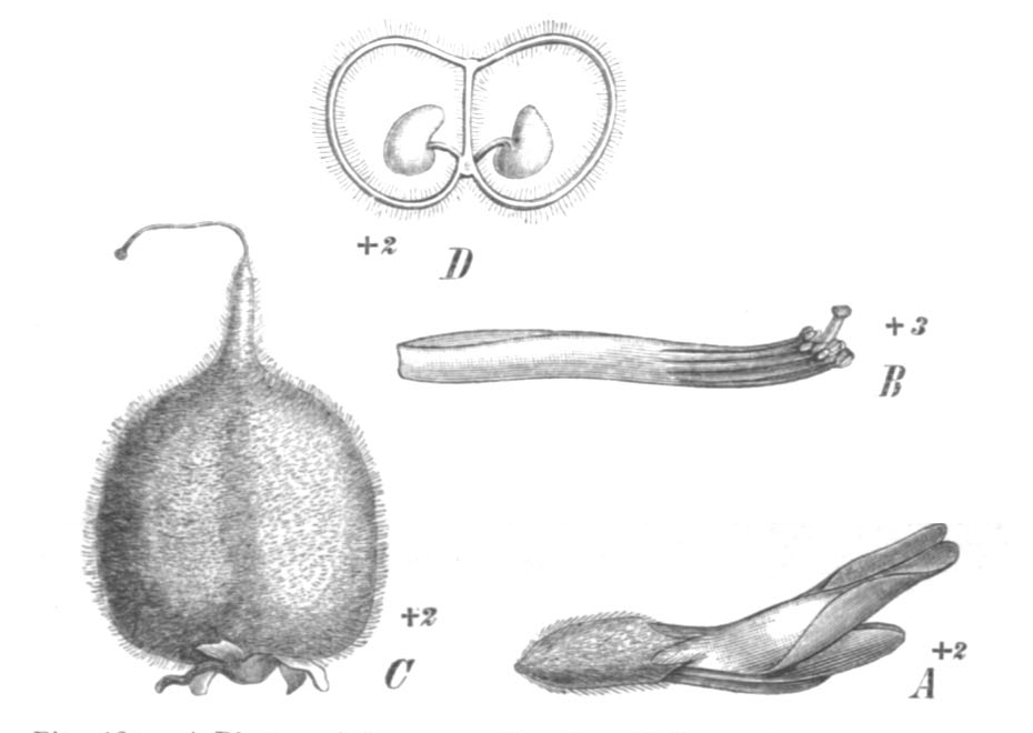 Illustration from book